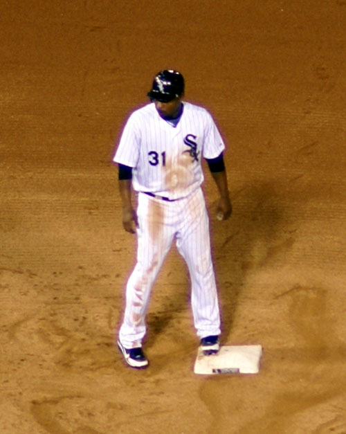 Outfielder DeWayne Wise, baseball player for the Chicago White Sox, standing after stealing second base in a game on July 1, 2008.